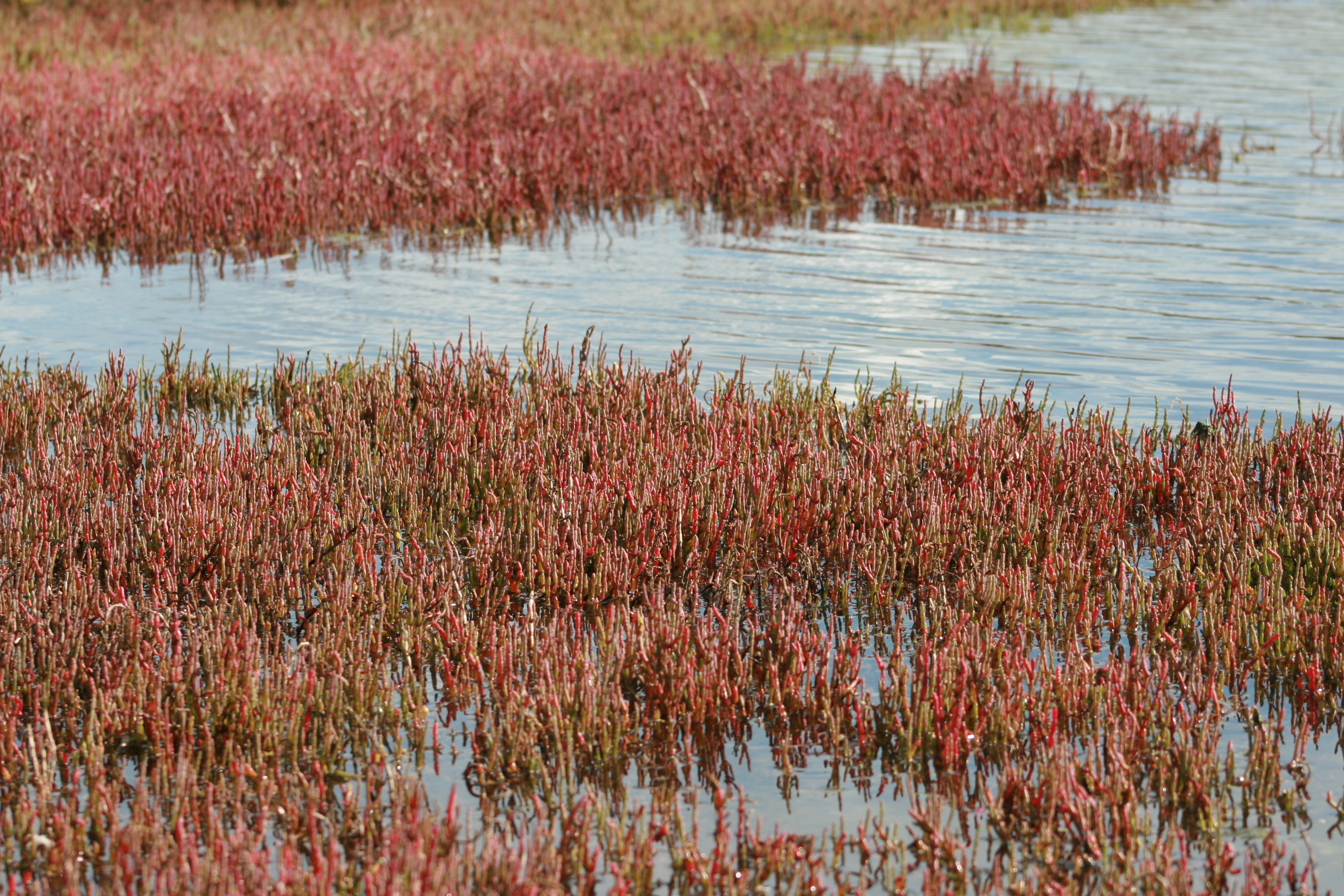 Beaded glasswort (Sarcocornia quinqueflora) at Sydney Olympic Park.